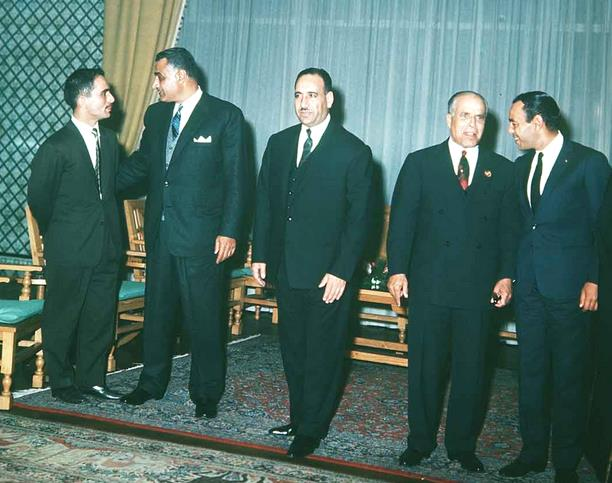 Some of the heads of state attending the second Arab League Summit in Alexandria; From left to right: King Hussein of Jordan, President Gamal Abdel Nasser of Egypt, President Abdul Salam Arif of Iraq, President Habib Bourguiba of Tunisia and King Hassan II of Morocco